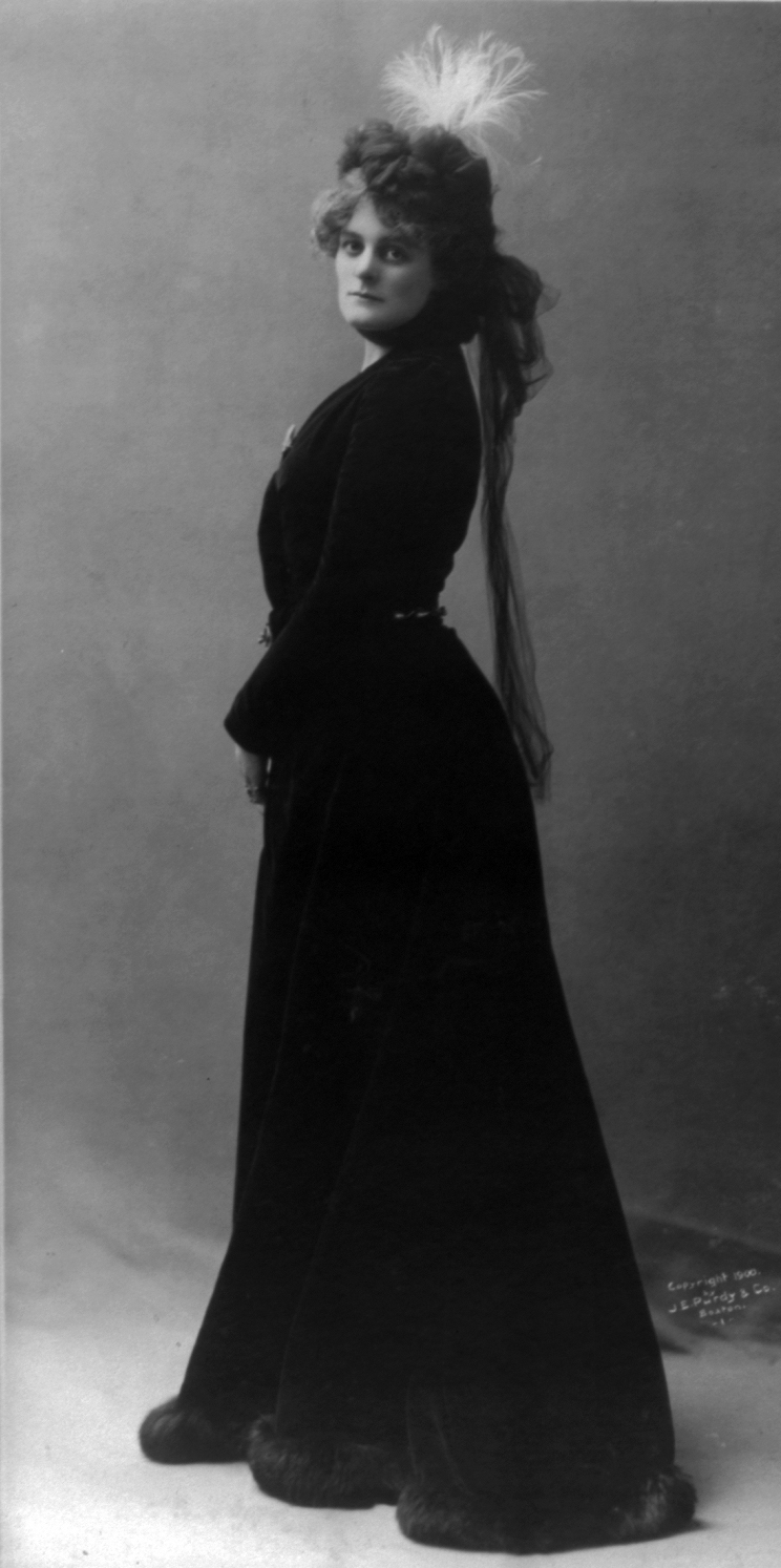 Maud Gonne, Irish actress and revolutionary